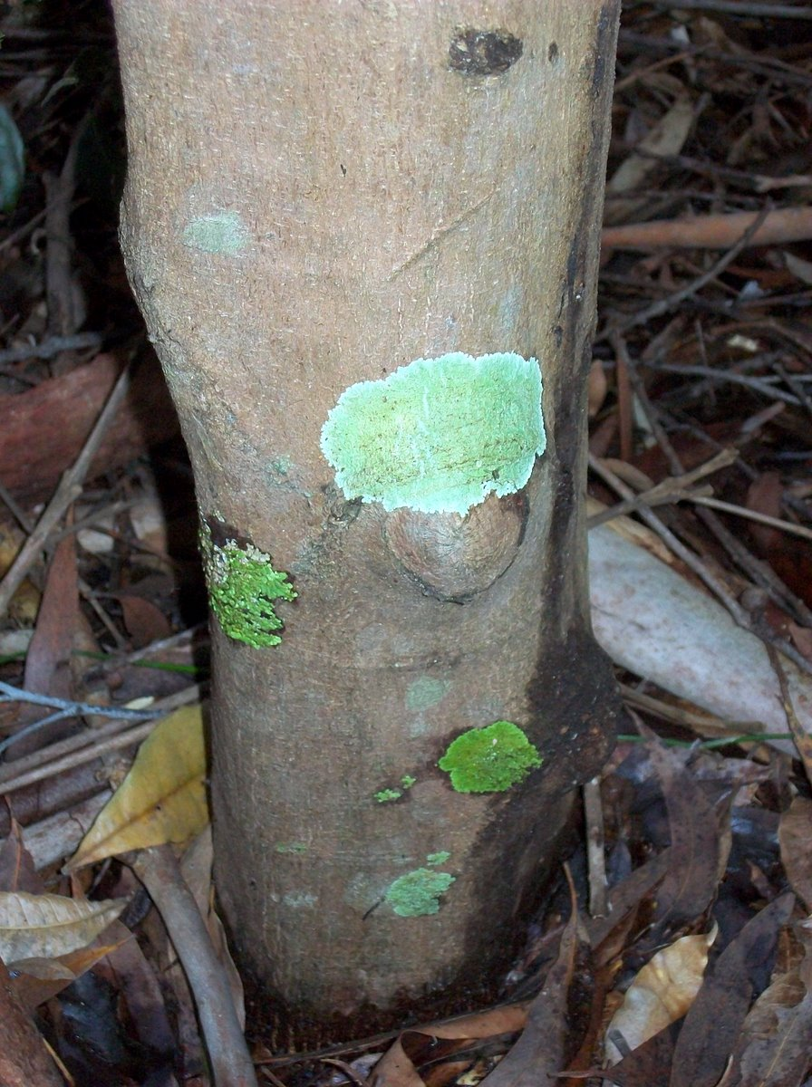 Acronychia pubescens, labeled at the Coffs Harbour Botanic Gardens, Australia